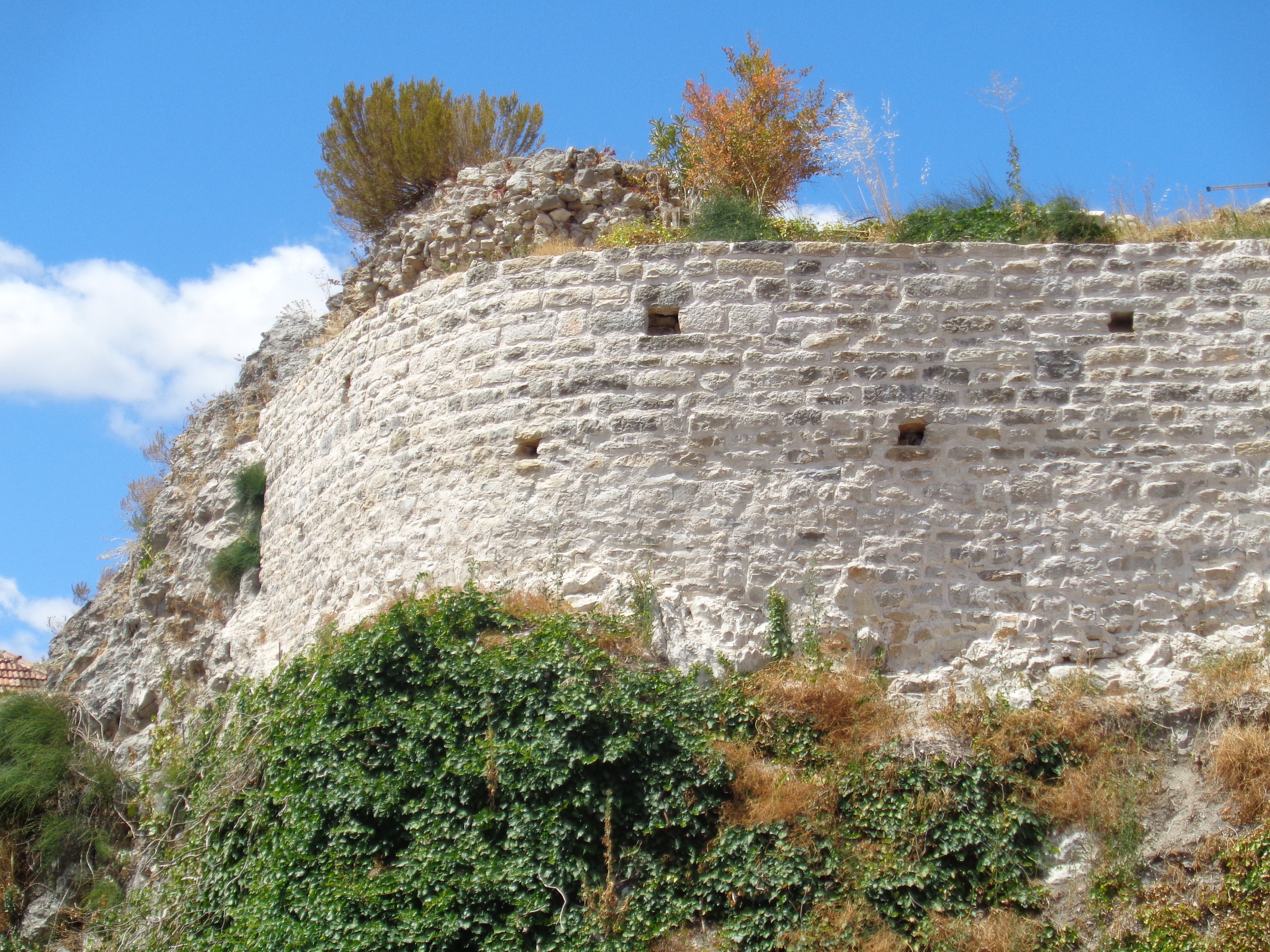 Turina Castle above the town of Skradin, Šibenik-Knin County, Croatia (detail)